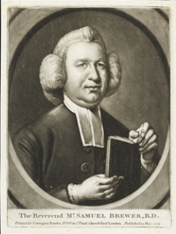 Portrait of the Reverend Samuel Brewer, head and shoulders, with small book